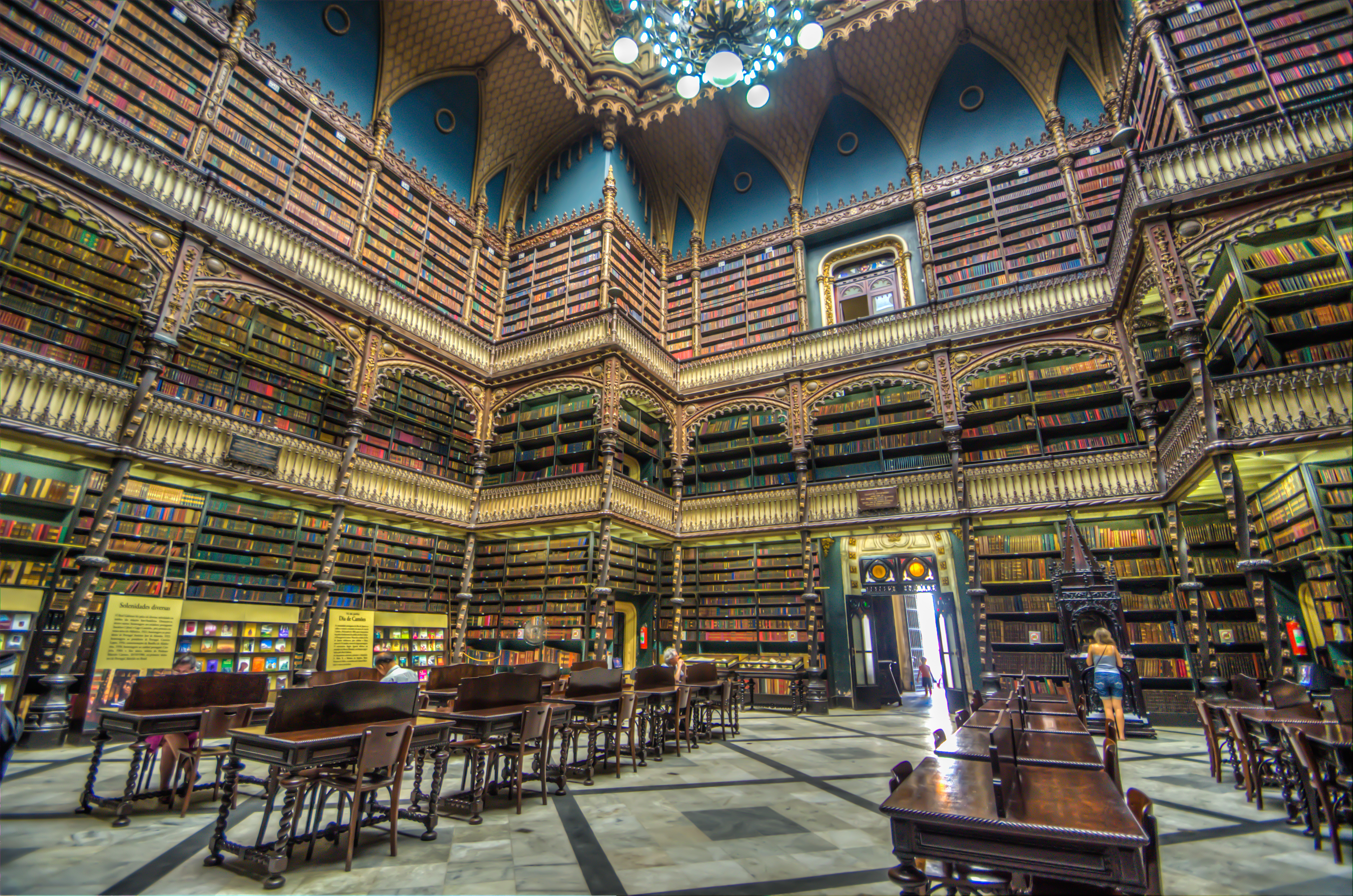 Inside the main room of the Real Gabinete Português de Leitura in Rio de Janeiro, Brazil.